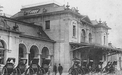 Hakata Station before 1945